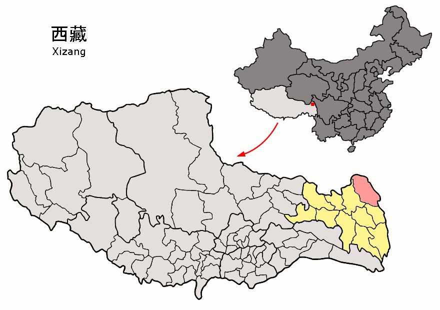 Location of Jomda County (pink) and Qamdo Prefecture (yellow) within Tibet (Xizang) autonomous region of China